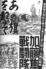 Movie poster for 1944 two Japanese movies: upper: (あの旗を撃て−コレヒドールの最後− Ano hata o ute) lower: (加藤隼戦闘隊 Kato hayabusa sento-tai).